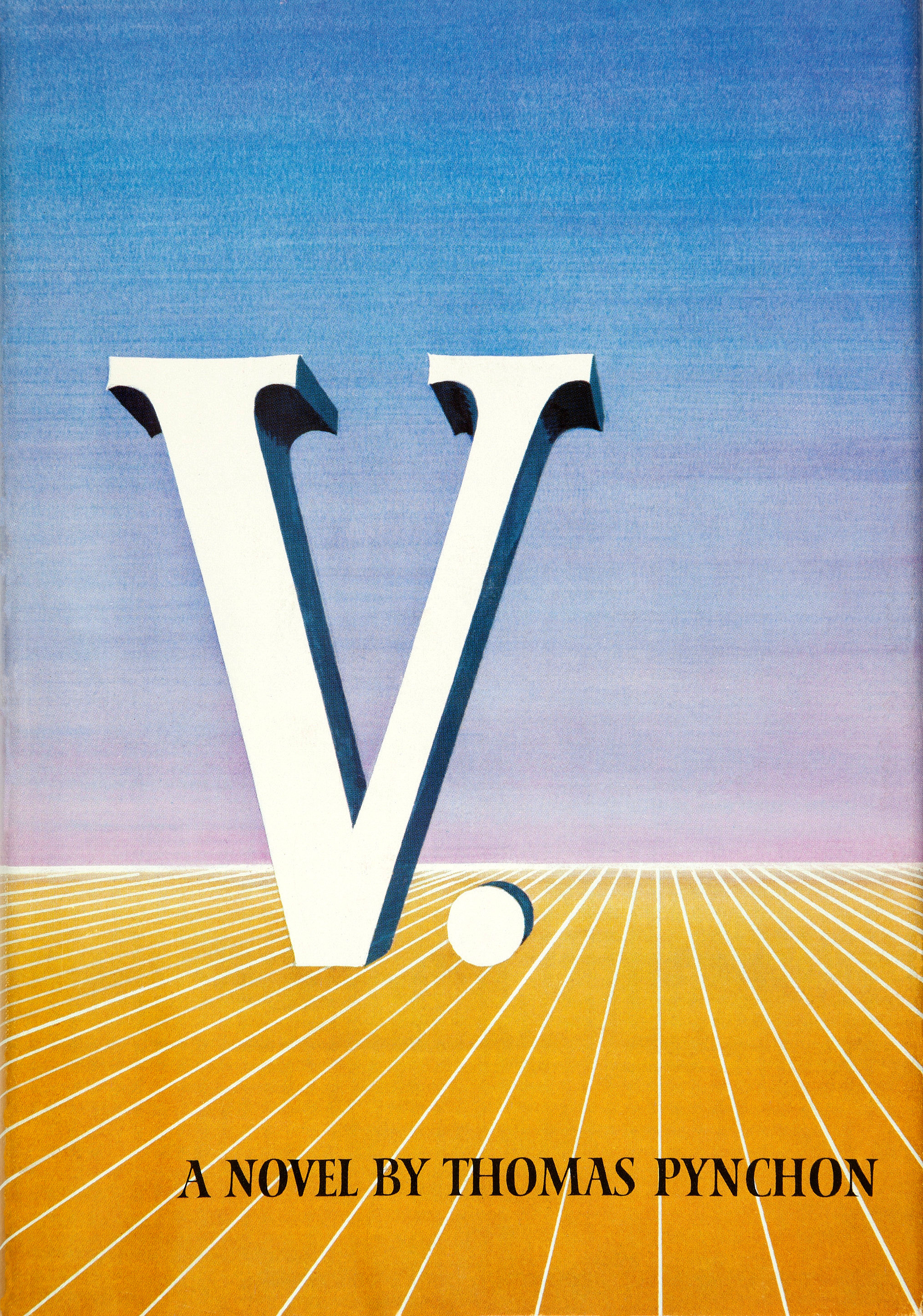 Cover design from the first-edition dust jacket of the 1963 novel V. by the American author Thomas Pynchon. Published by J. B. Lippincott & Co..